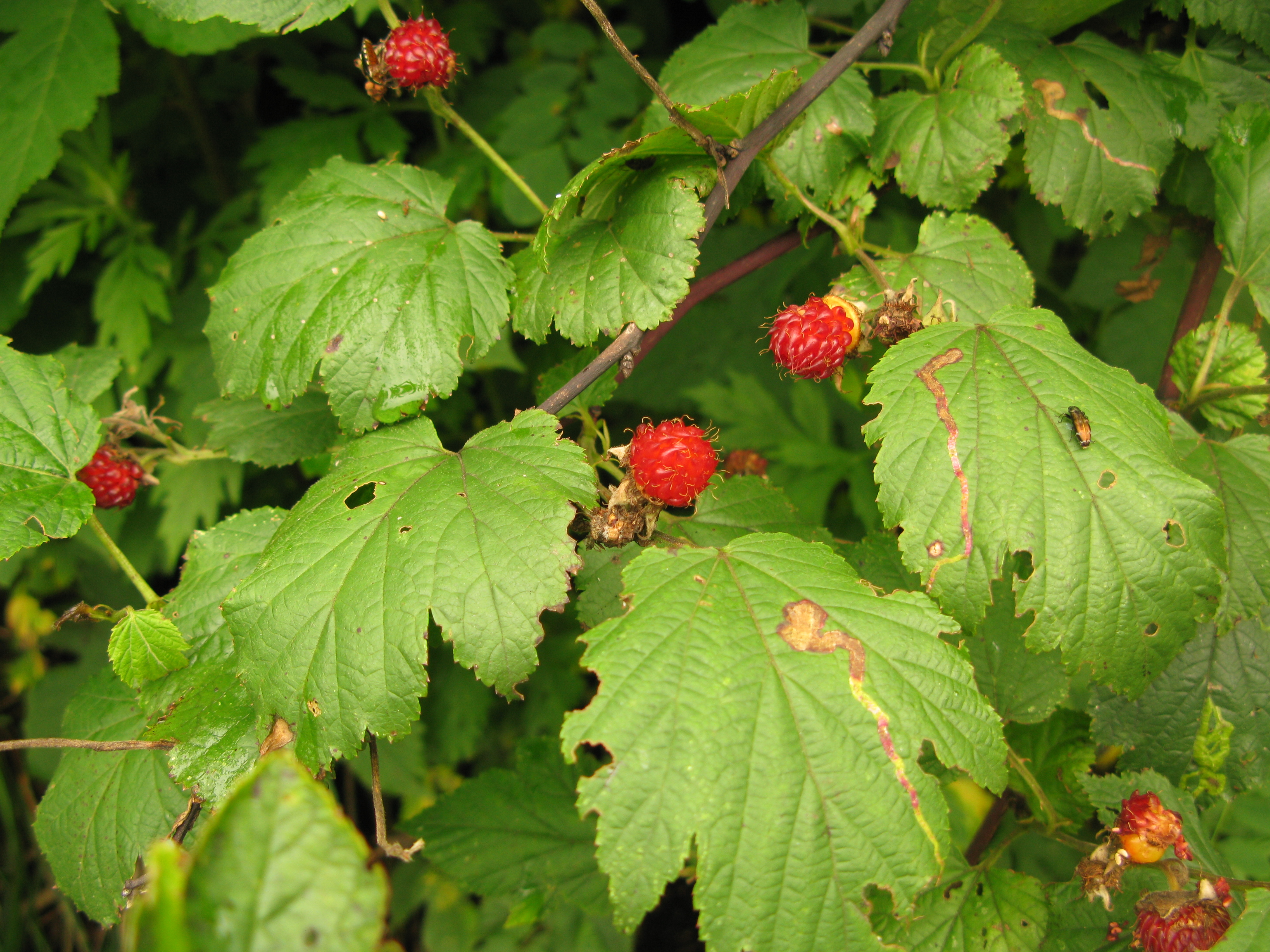 Rubus crataegifolius,Aizu area,Fukushima pref.,Japan